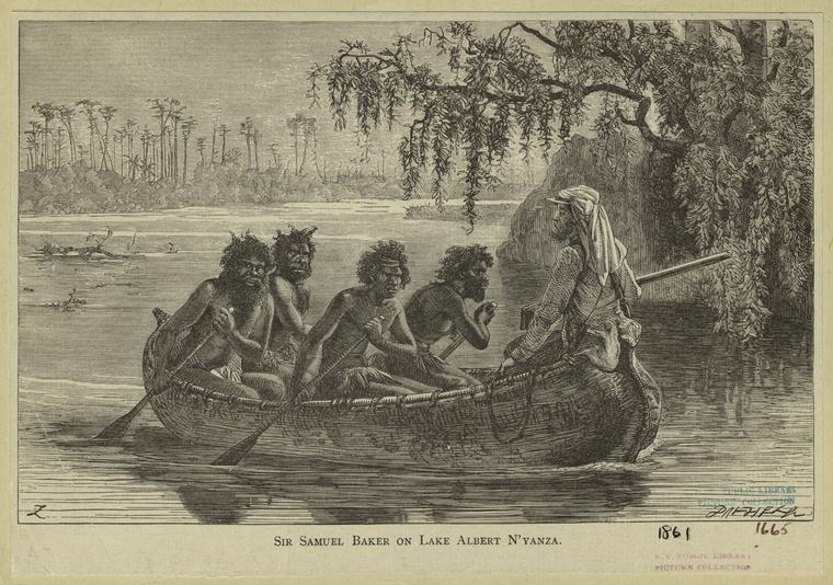 "Sir Samuel Baker on Lake Albert N'yanza"